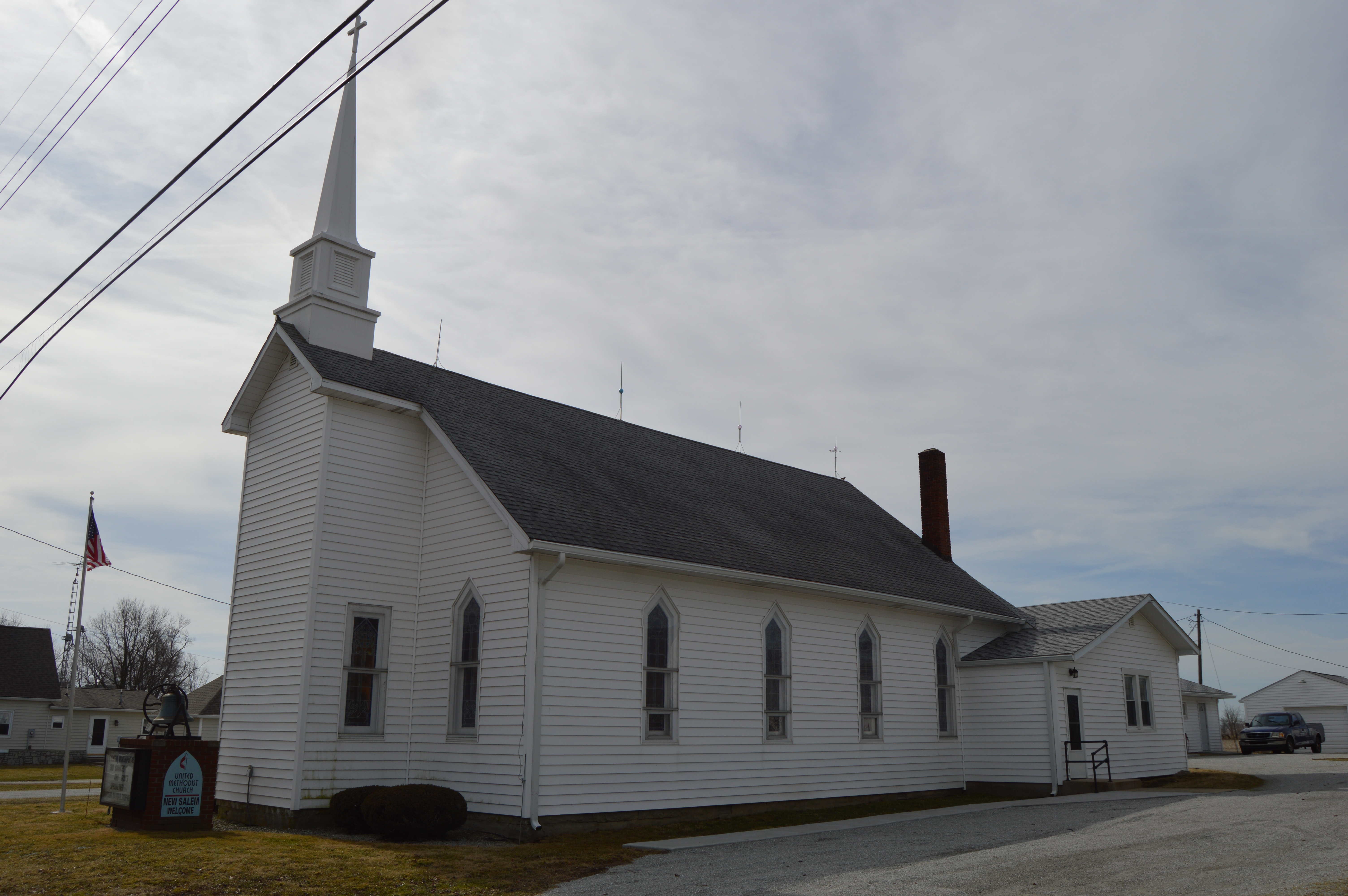 Front and northwestern side of the New Salem United Methodist Church, located at 4451 E. U.S. Route 52 at New Salem in Noble Township, Rush County, Indiana, United States.